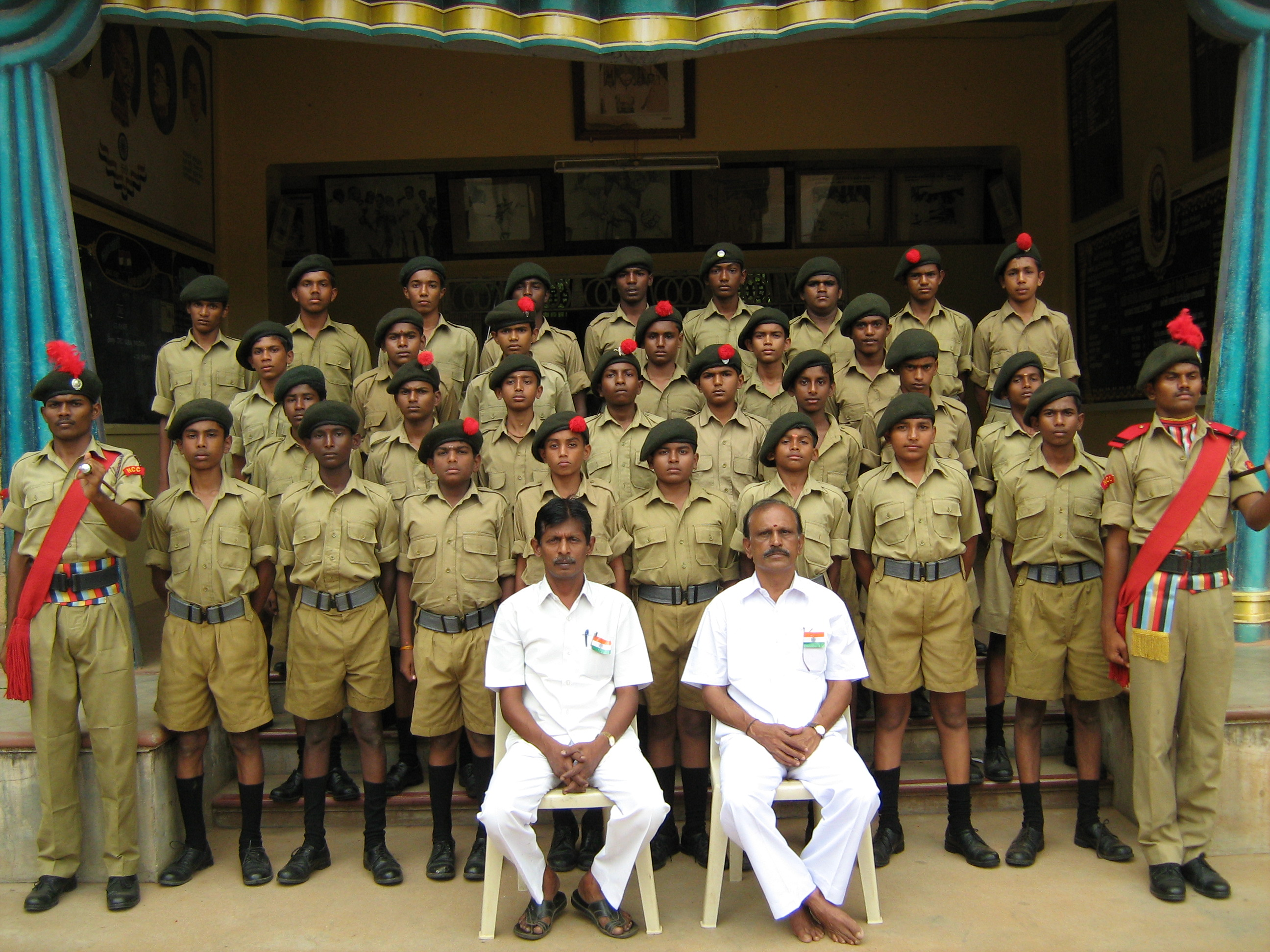 Gudalur N.S.K.P.School NCC Students